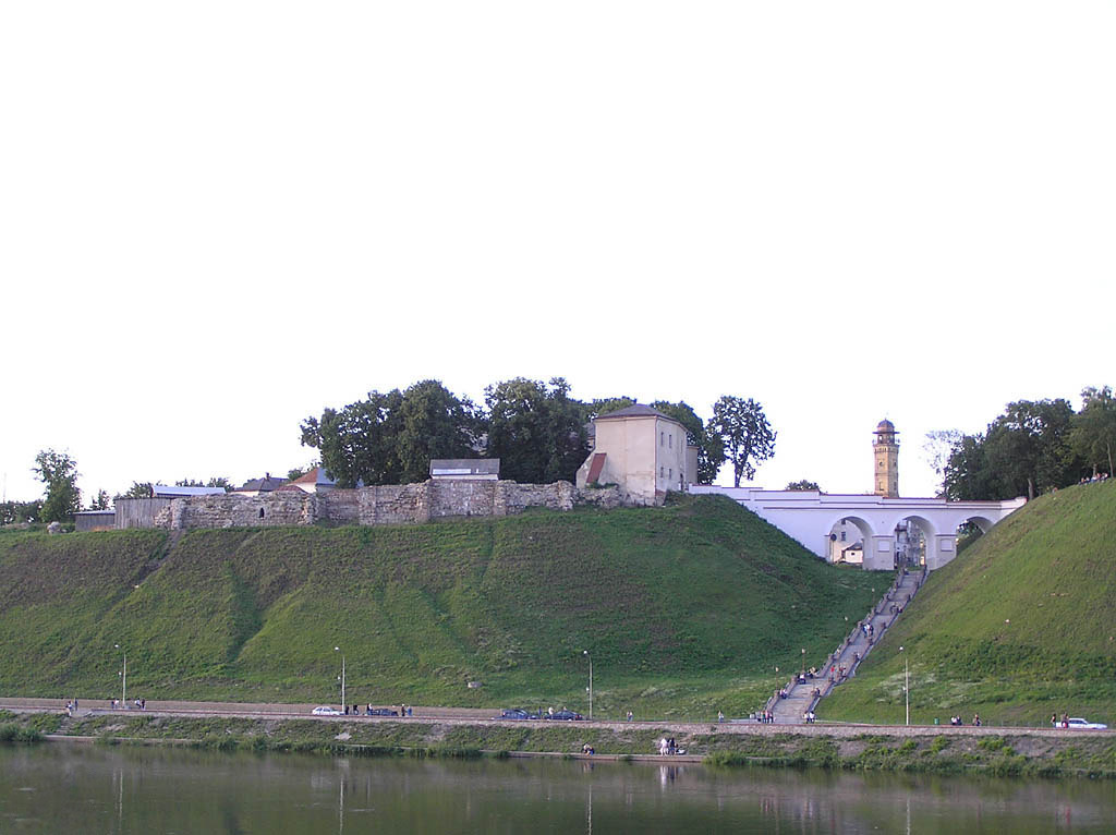 Hrodna Castle